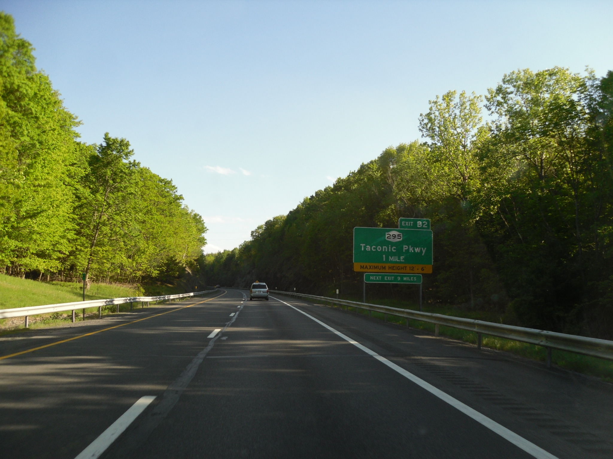 Approaching exit B2 on the New York State Thruway's Berkshire Connector (Interstate 90) in Chatham, New York.